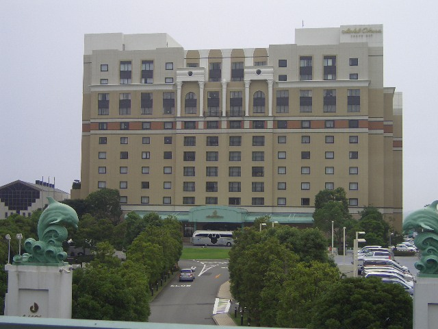 This is a picture of "Hotel Okura TOKYO BAY" I took from "Disney RESORT LINE".